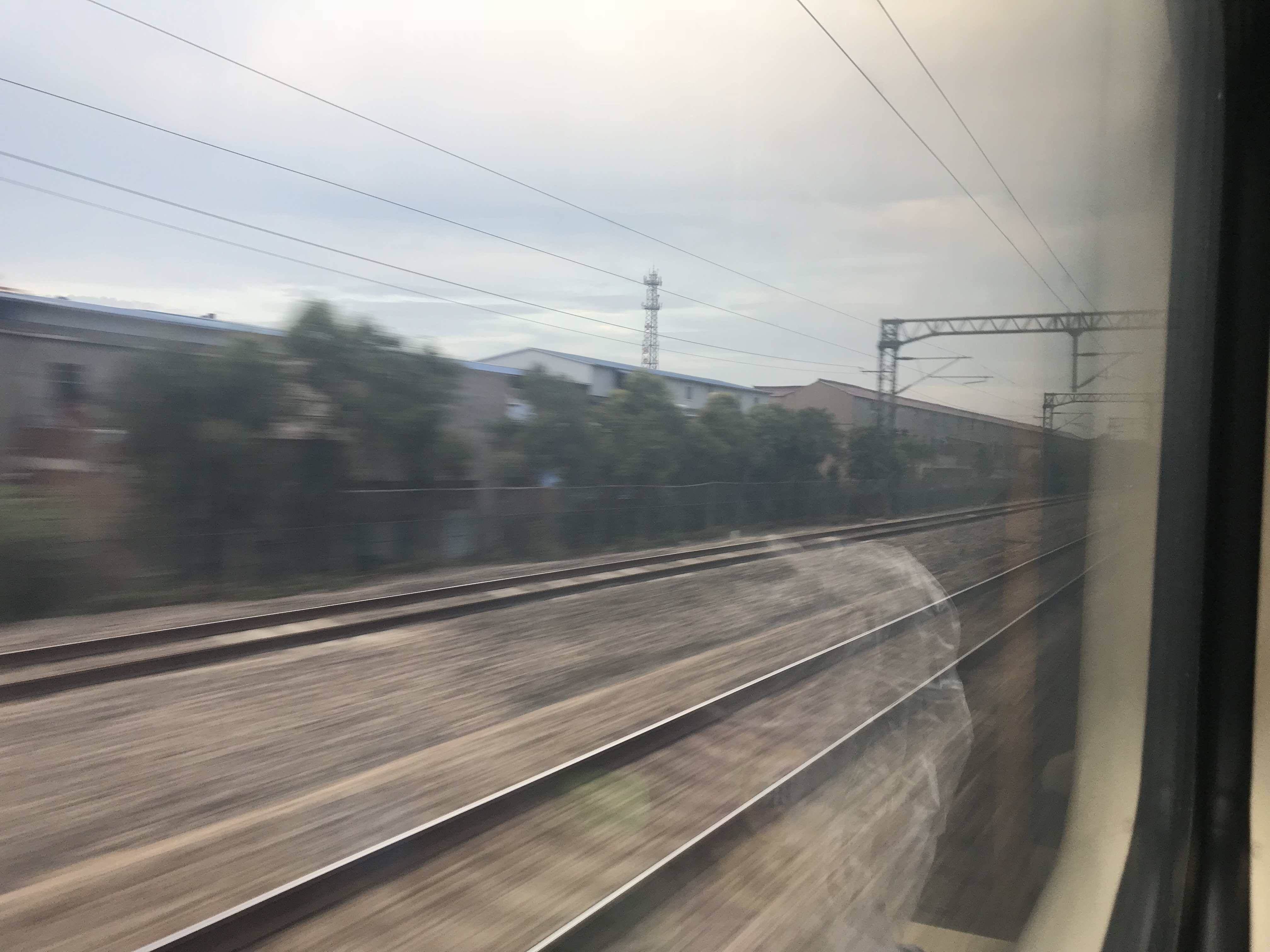 201806 Tracks at Xinmaqiao Station